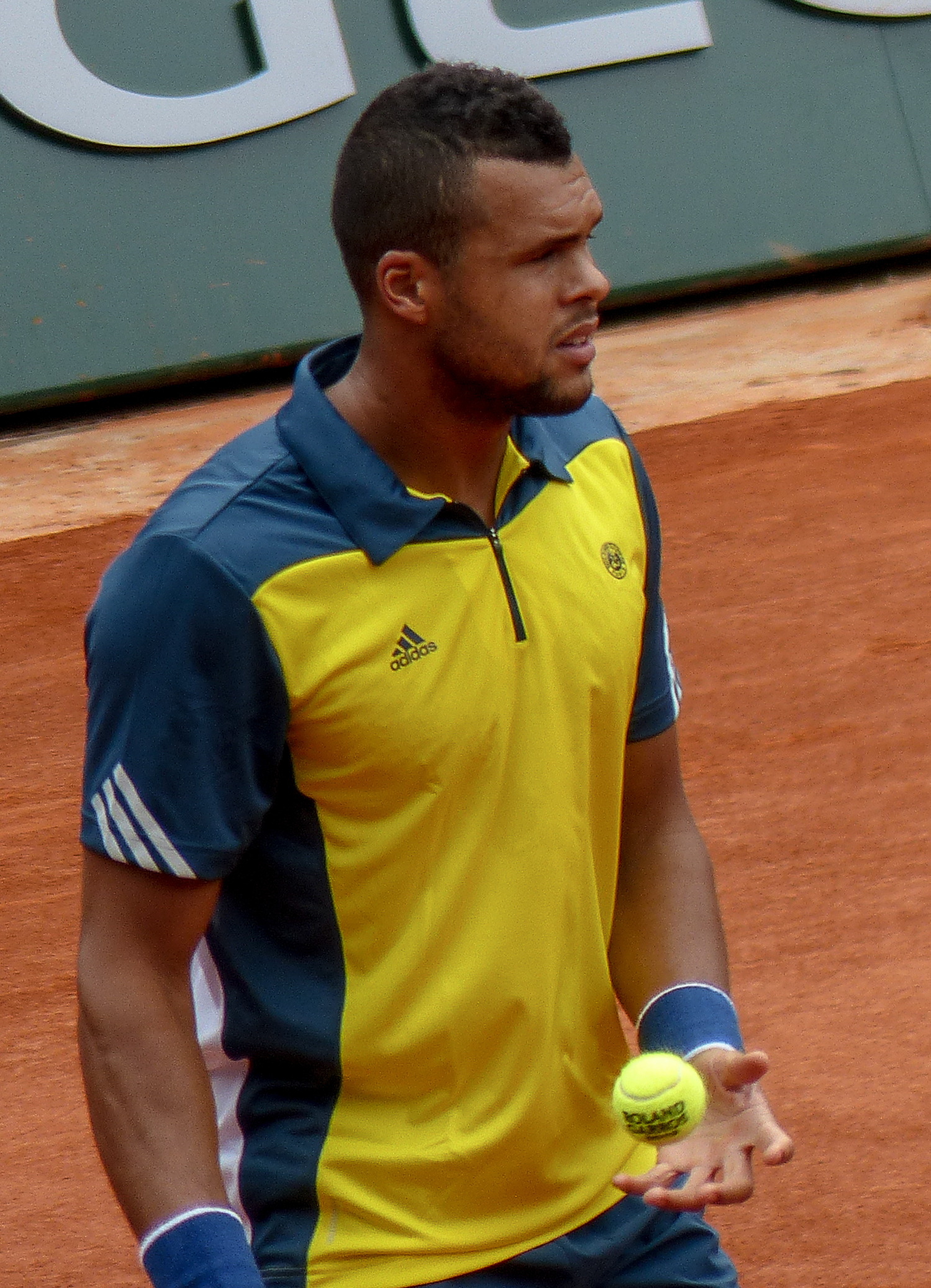 2ème tour Roland Garros 2013 : Jo-Wilfried Tsonga (FRA) def. Jarkko Nieminen (FIN)